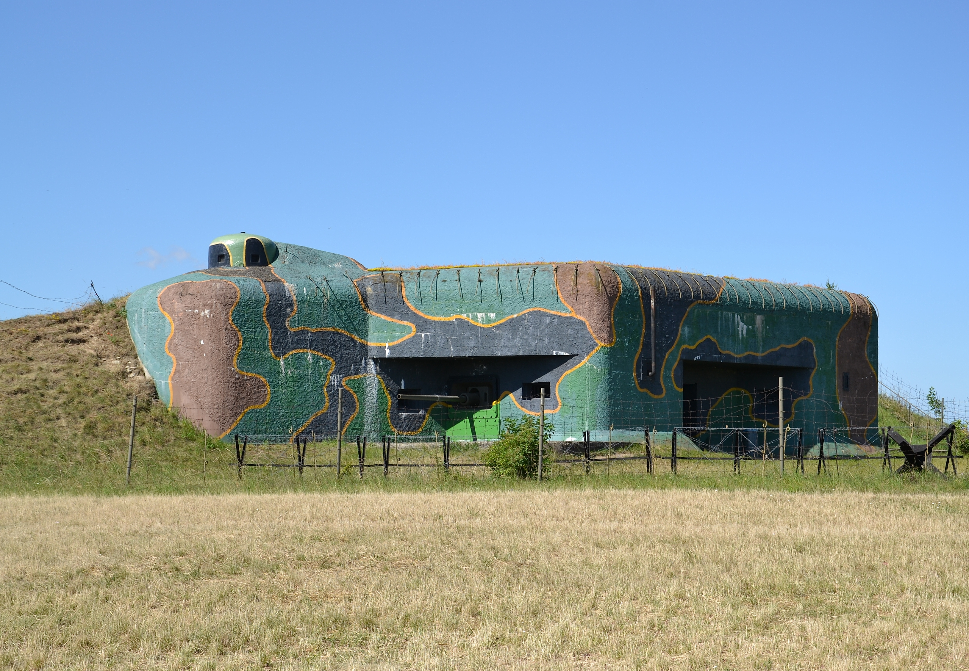 MJ-S 3 Zahrada casemate, Šatov (Schattau), Moravia